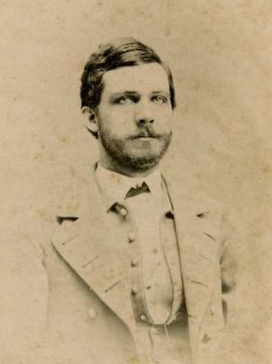 Scott Shipp, VMI Commandant, as he looked during Civil War, ca. 1865, VMI Archives